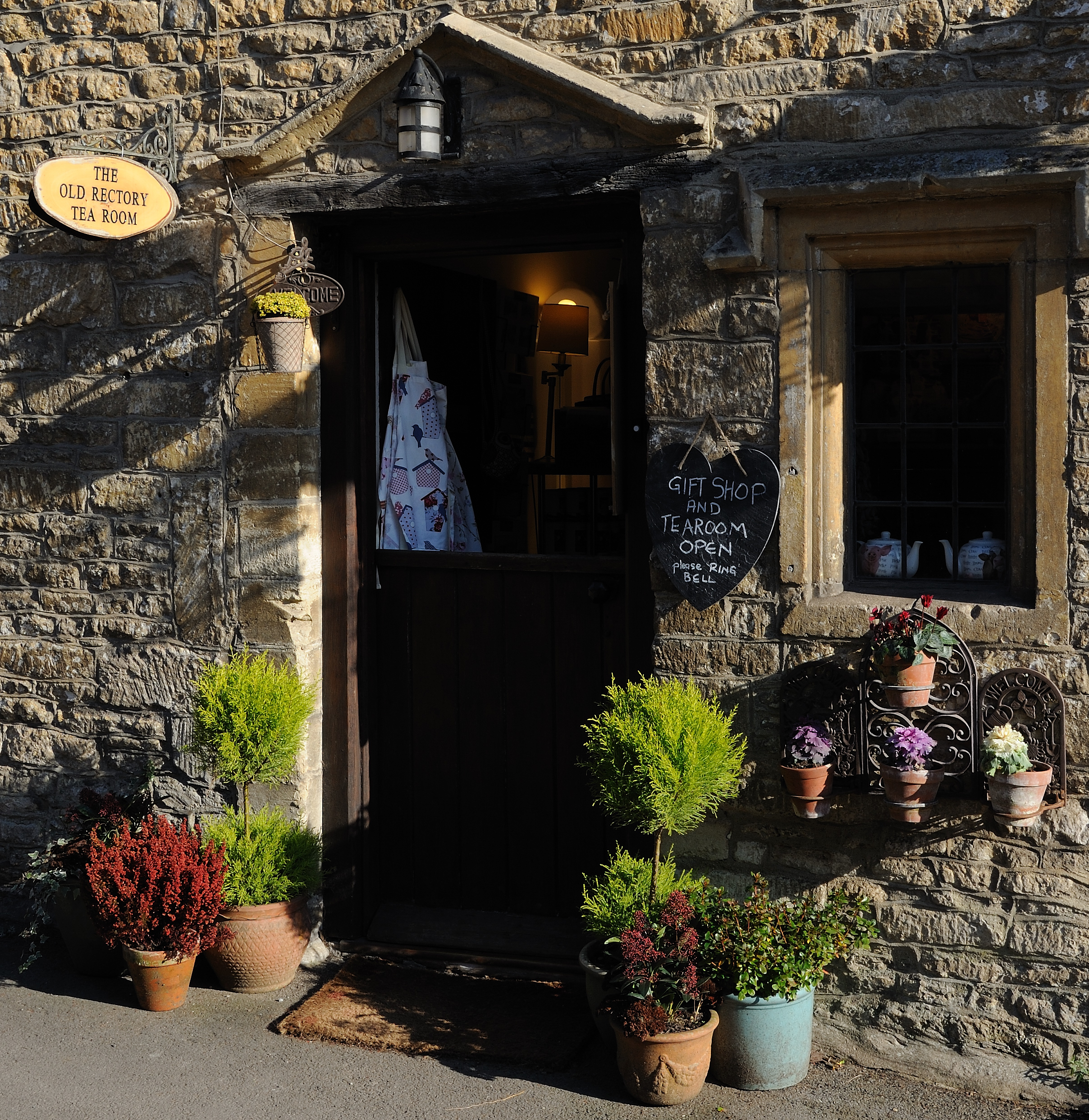 The Old Rectory Tea Room In Castle Combe, Wiltshire, UK.